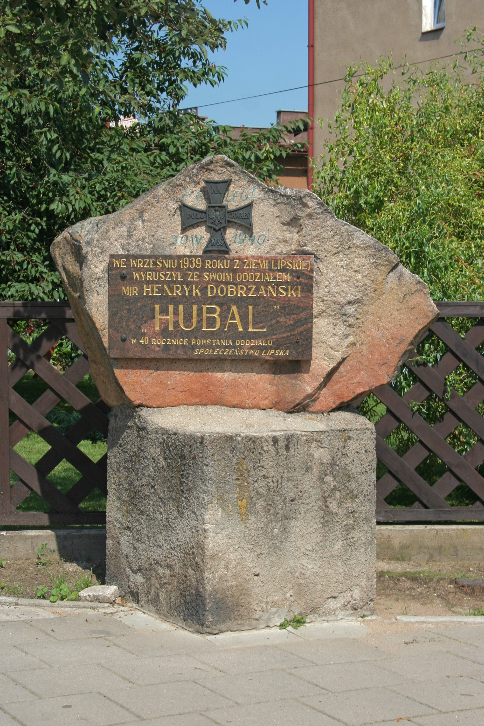 Hubal monument in Lipsk.